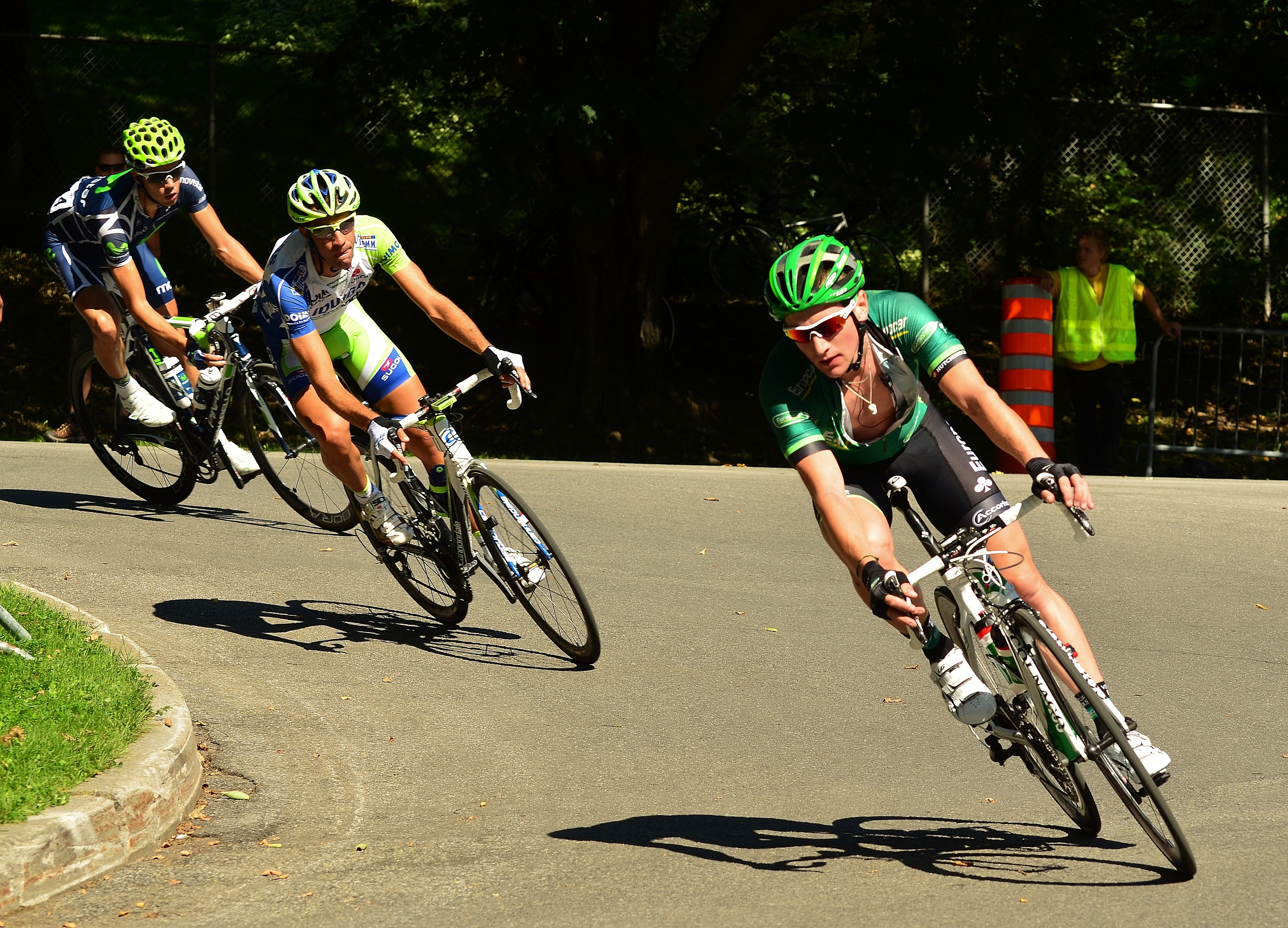 In the Gilmore hill in Quebec City's Grand Prix Cycliste 2011. Can be seen from right to left:Tony Hurel (Europcar), Cristiano Salerno (Liquigaz) et Jesus Herrada (Movistar).